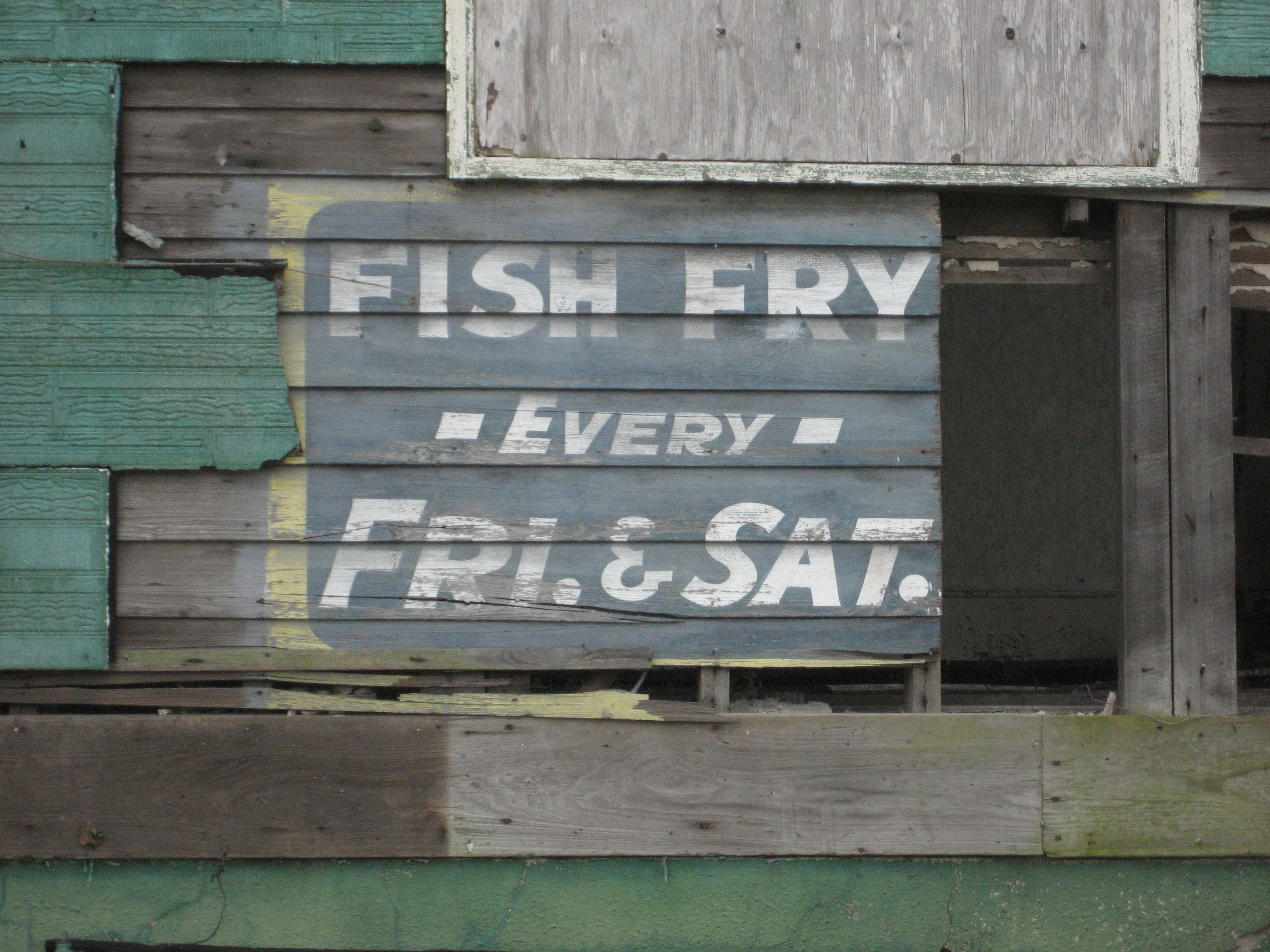 New Orleans: Weathered old sign on side of building Uptown, advertising "Fish Fry" held every Friday and Saturday. Photo by Infrogmation, 2007-03